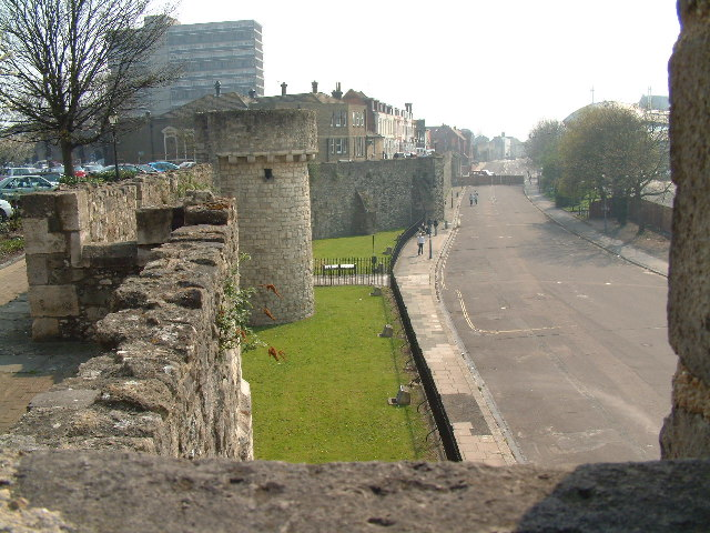 Southampton City Wall. The old quay side